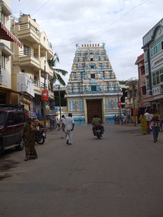 entrance to prashanti nilayam